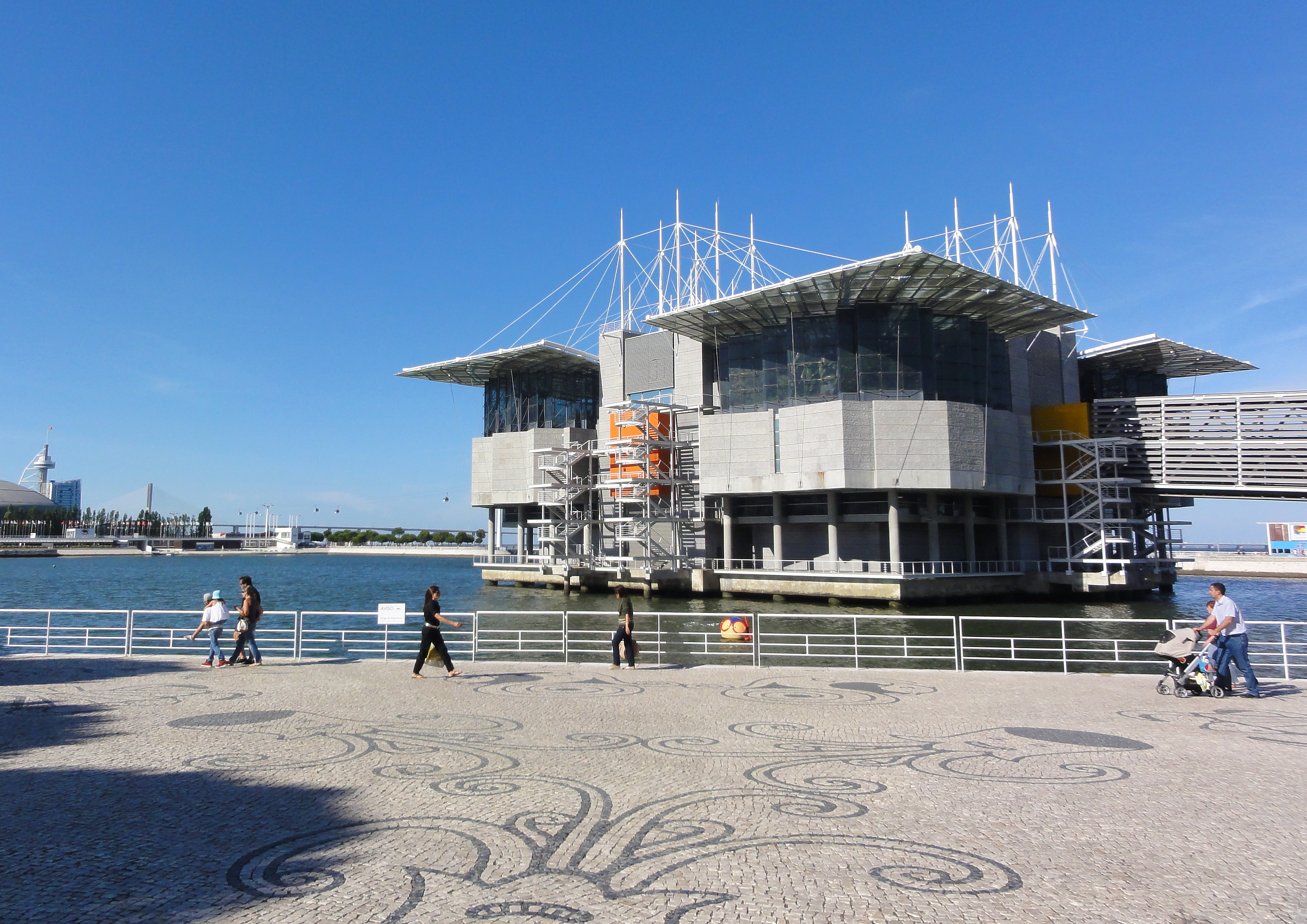 The Lisbon Oceanarium (Oceanário de Lisboa) at Portugal. Located in the Parque das Nações, which was the exhibition grounds for the Expo '98 (1998 Lisbon World Exposition) themed The Oceans, a Heritage for the Future. Design architecture and exhibit design was led by Peter Chermayeff and Cambridge Seven Associated.